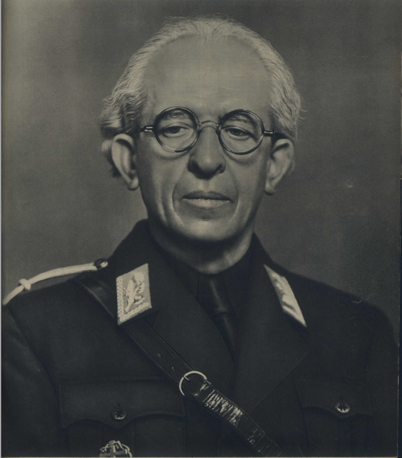 Vojtech Tuka as he appears on the Nový svet cover on 7 October 1939 (issue 20)